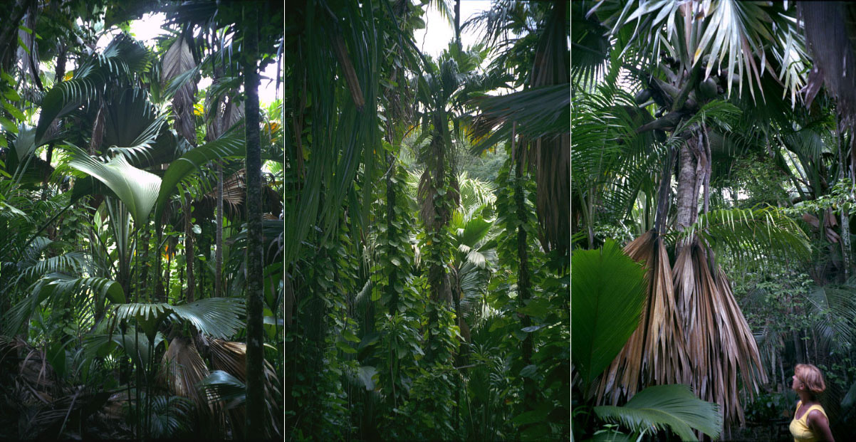 Seyshelles,Praslin Island - Valle de Mai National Park